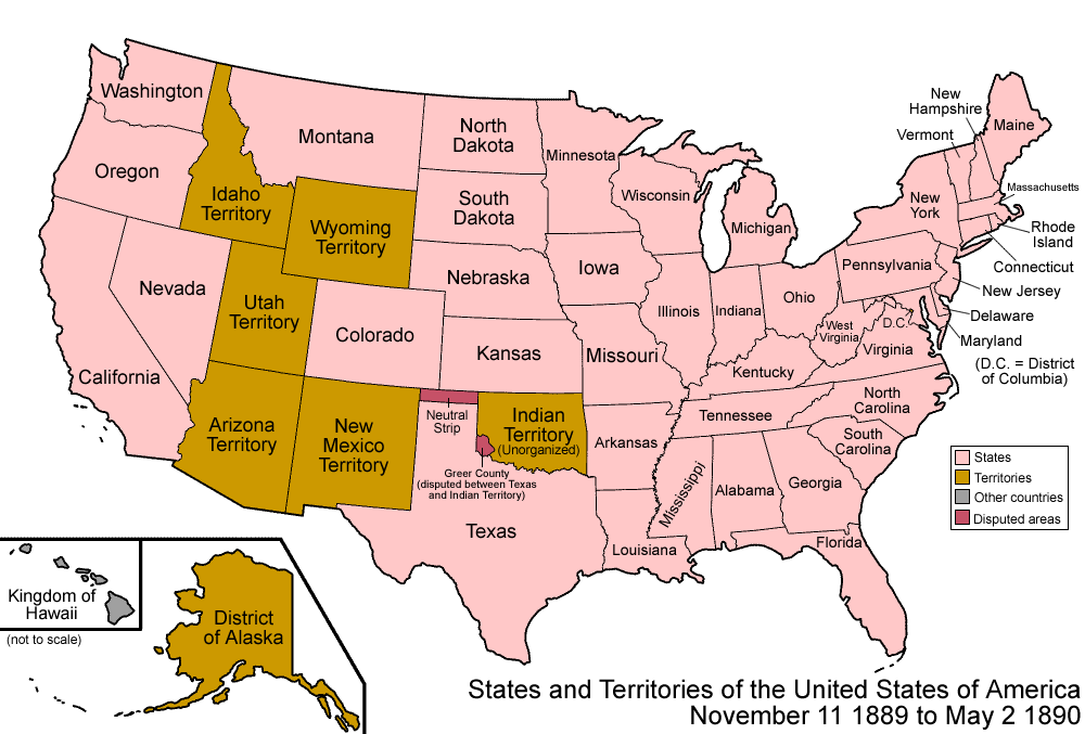 Map of the states and territories of the United States as it was from November 11 1889 to May 2 1890. On November 11 1889, Washington Territory was admitted as the state of Washington. On May 2 1890, Oklahoma Territory was organized, including the Neutral Strip.